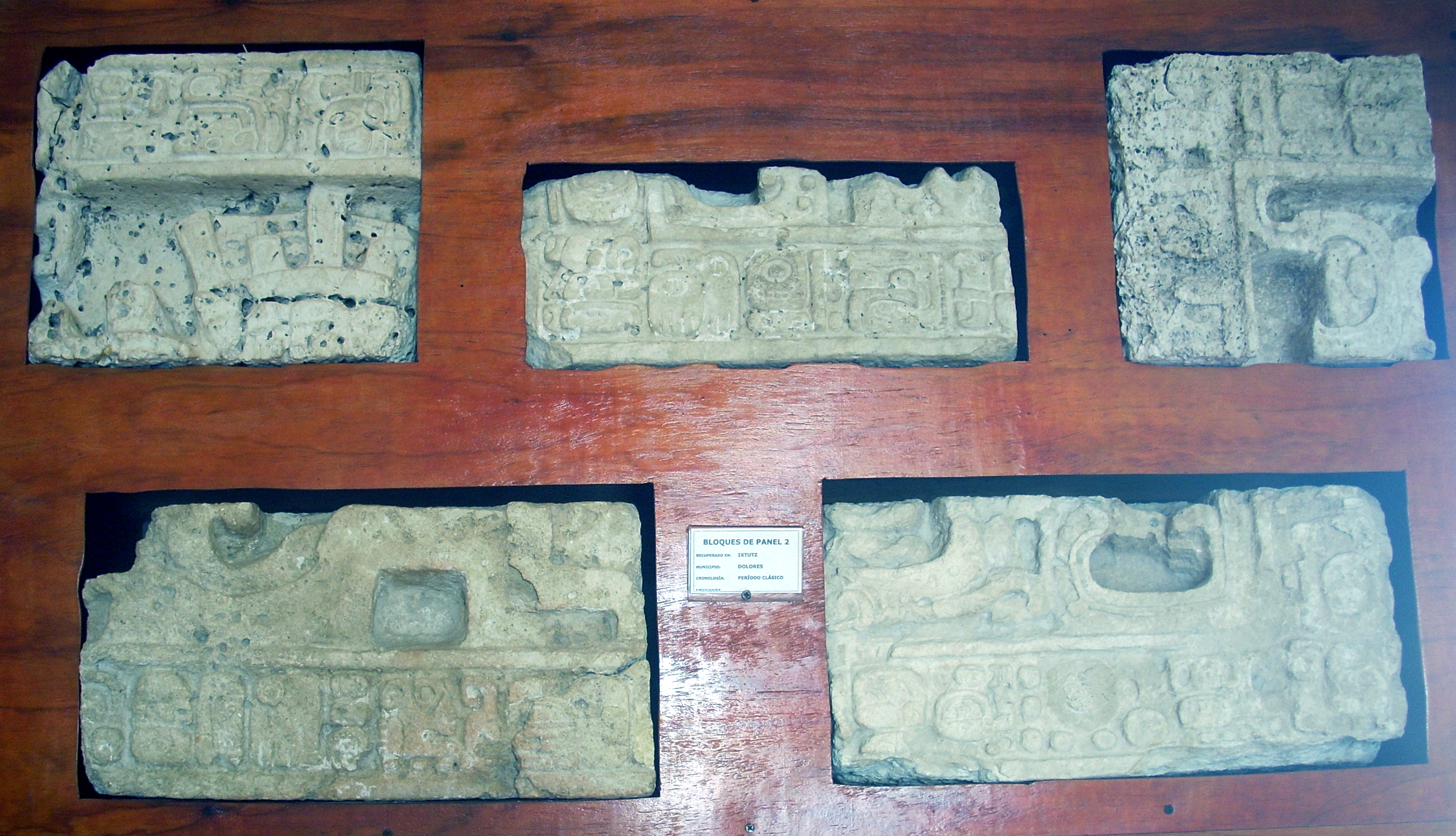 Fragments of Panel 2 from Ixtutz. Classic Period. Museo Regional del Sureste del Petén, Dolores, Peten, Guatemala.